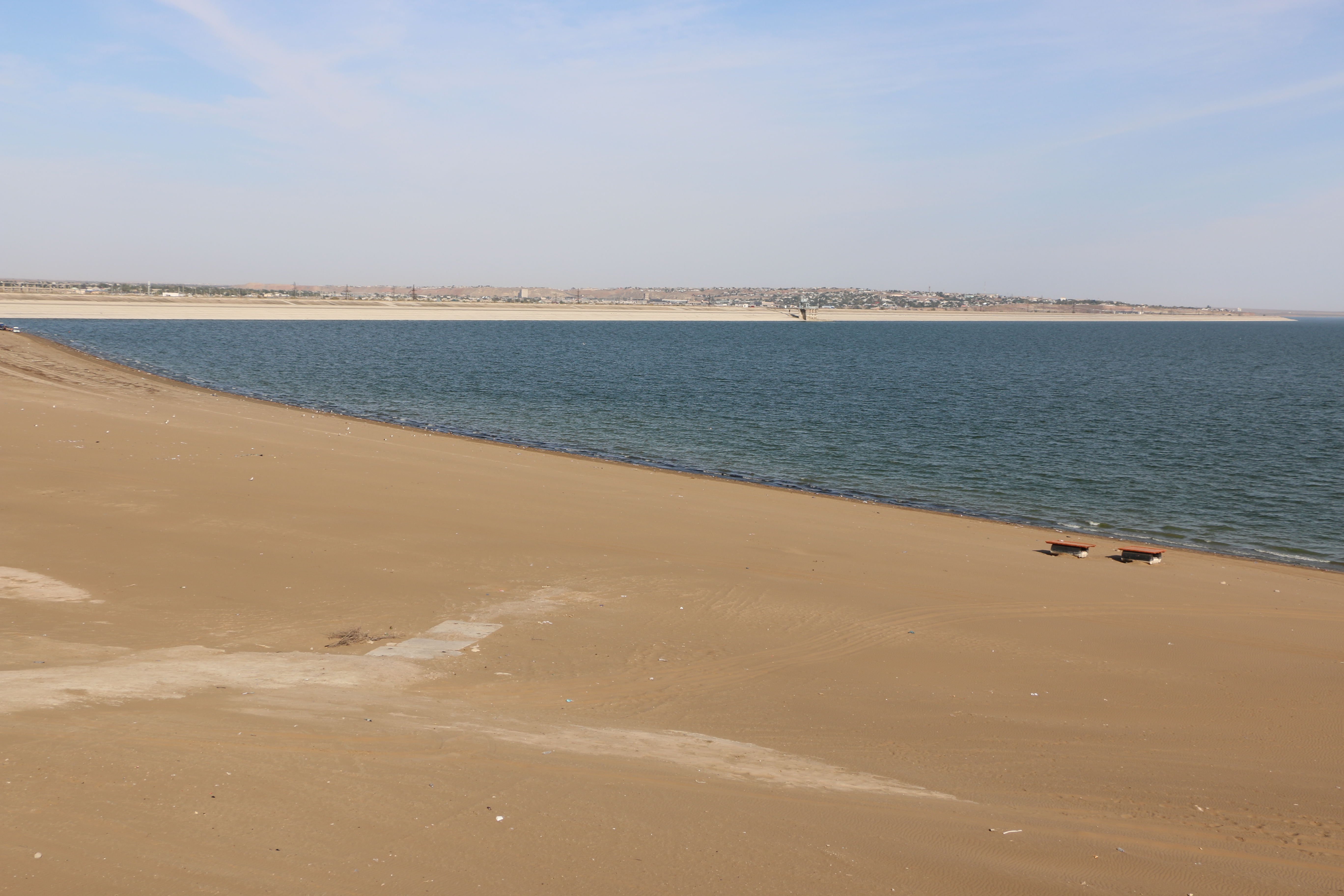 Shardara